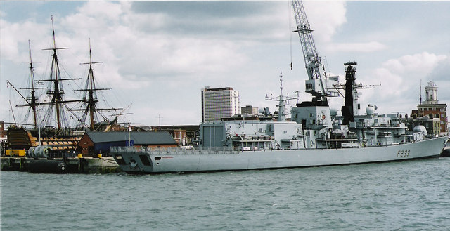 HMS Marlborough (F233) in Portsmouth Dockyard from the water.